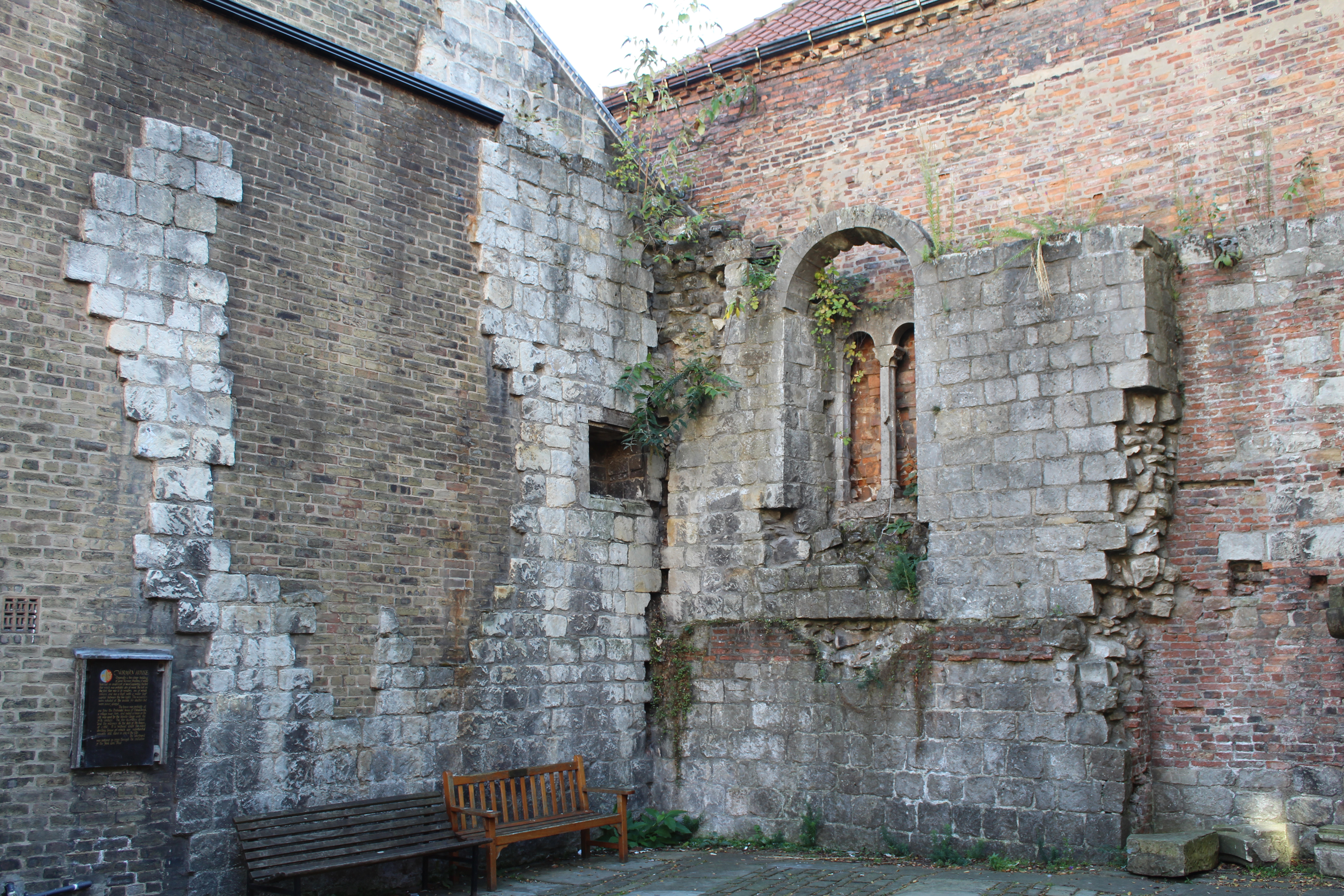 The Norman House dates to around 1180. The two stone walls, one with window, are the oldest remains of a domestic house in the original location in York